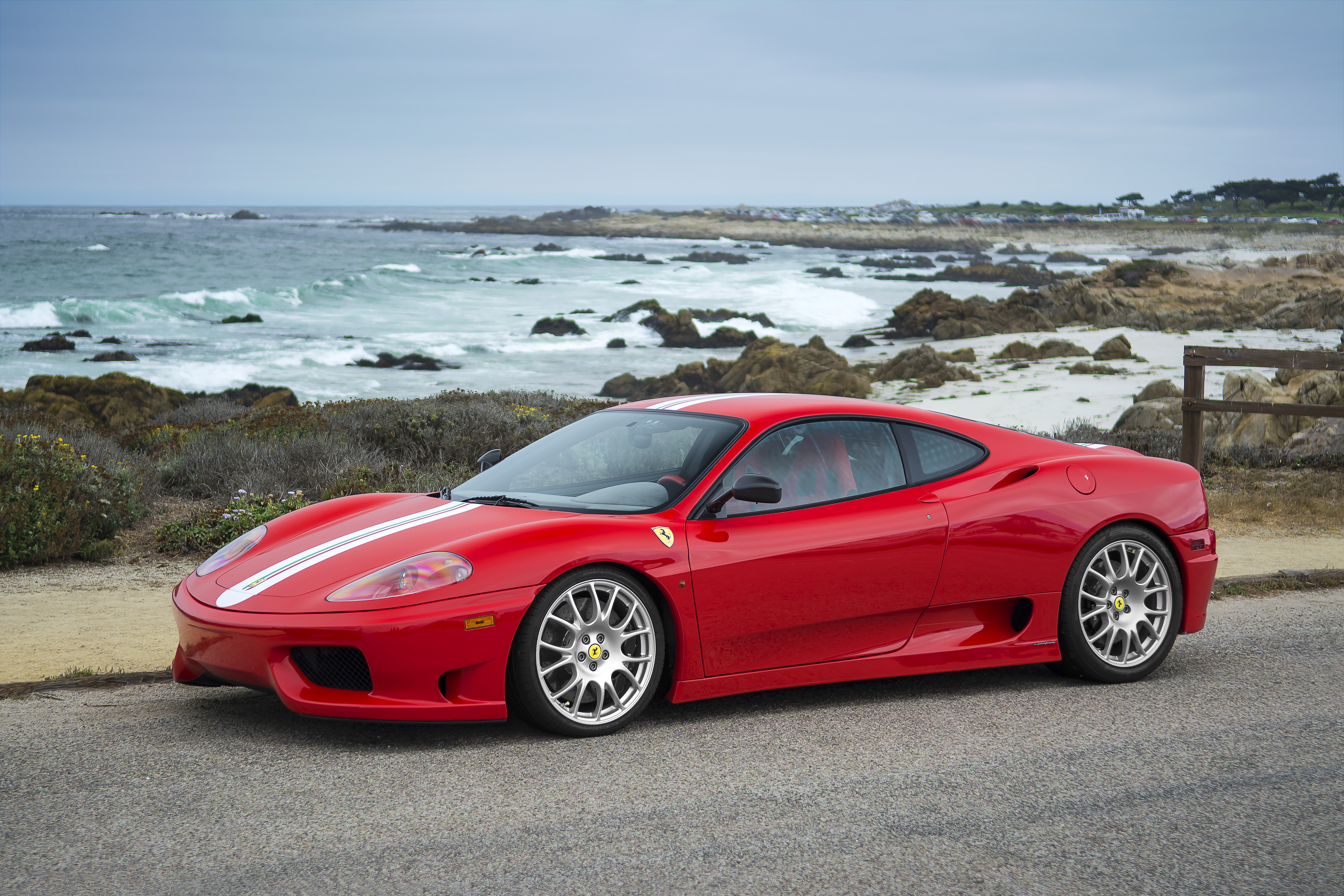 Red Ferrari 360 Challenge in Pebble Beach during Monterey Car Week 2014.